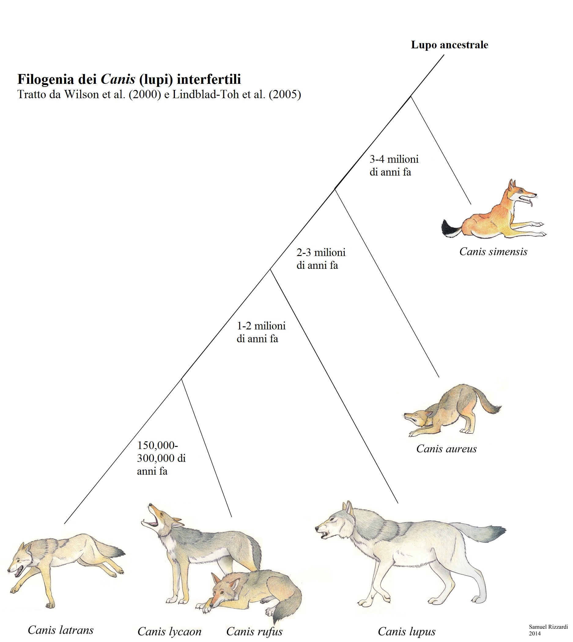 The sources used are: Wilson, P.J., Grewal, S., Lawford, I.D., Heal, J.N.M., Granacki, A.G., Pennock, D., Theberge, J.B., Theberge, M.T., Voigt, D.R., Waddell, W., Chambers, R.E., Paquet, P.C., Goulet, G., Cluff, D., White, B.N. (2000). "DNA profiles of the eastern Canadian wolf and the red wolf provide evidence for a common evolutionary history independent of the gray wolf". Canadian Journal of Zoology 78: 2156–2166. Lindblad-Toh, K.; Wade, CM; Mikkelsen, TS; Karlsson, EK; Jaffe, DB; Kamal, M; Clamp, M; Chang, JL et al. (2005). "Genome sequence, comparative analysis and haplotype structure of the domestic dog". Nature 438 (7069): 803–819. I did this piece in order to clarify the relationships between Canis species capable of hybridizing, hence why I omitted Canis mesomelas and Canis adustus, which are too basal to reproduce with any of the above shown species. One thing that I hope should become immediately apparent in this piece is the fact that the term "wolf" is taxonomically meaningless. For example, simensis is usually considered a "legitimate" wolf, yet aureus is more closely related to lupus than simensis is, yet it is classed as a "jackal" (an equally meaningless term from a genetic standpoint). Furthermore, latrans is also far more closely related to lupus than simensis is, yet it is termed "coyote", and isn't usually included as much in wolf fansites or organisations. Yet more confusion stems from lycaon and rufus. Assuming that they are in fact distinct species, the phylogenetic tree makes it clear that they branched off from the same lineage as latrans, not lupus, yet they are in turn called "eastern wolf" and "red wolf" respectively.